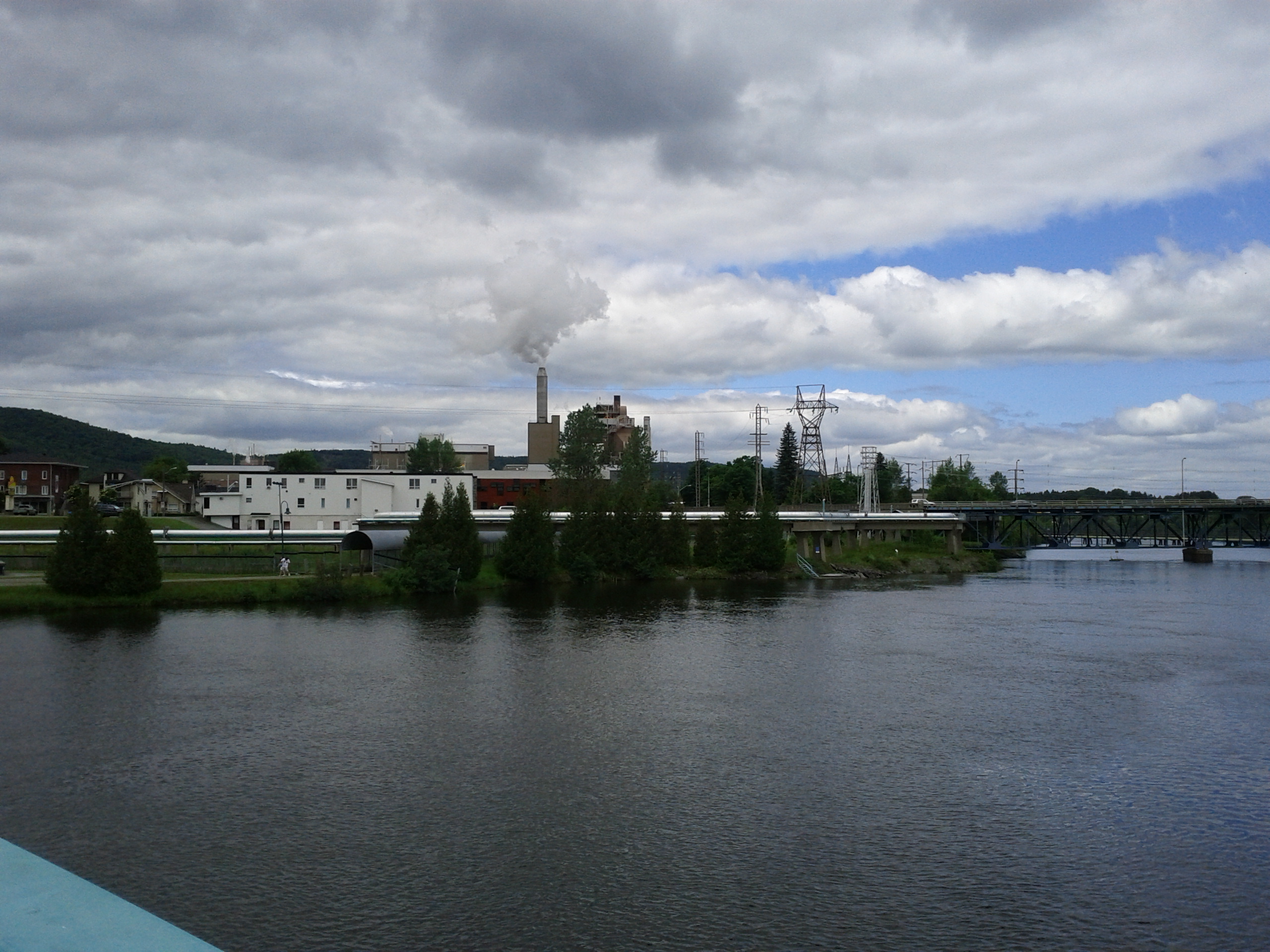 The smokestack of the Twin Rivers paper mill (formerly known as Fraser Paper) in Edmundston, New Brunswick.